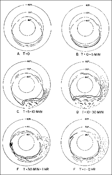 First published schematic drawing about substorms/auroral oval (S.I.Akasofu)